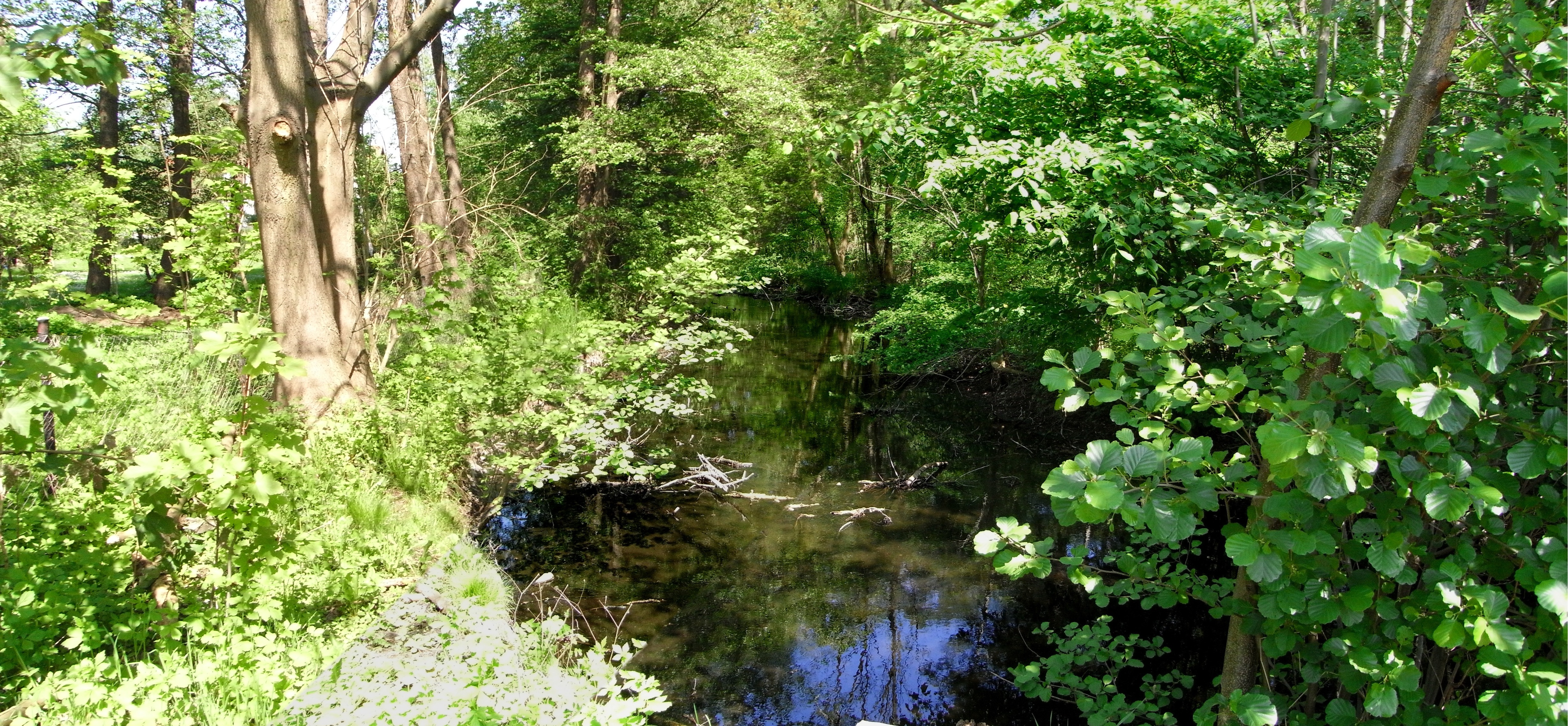 Tegeler Fließ at Woltersdorfer Straße in Mühlenbeck, Brandenburg, Germany